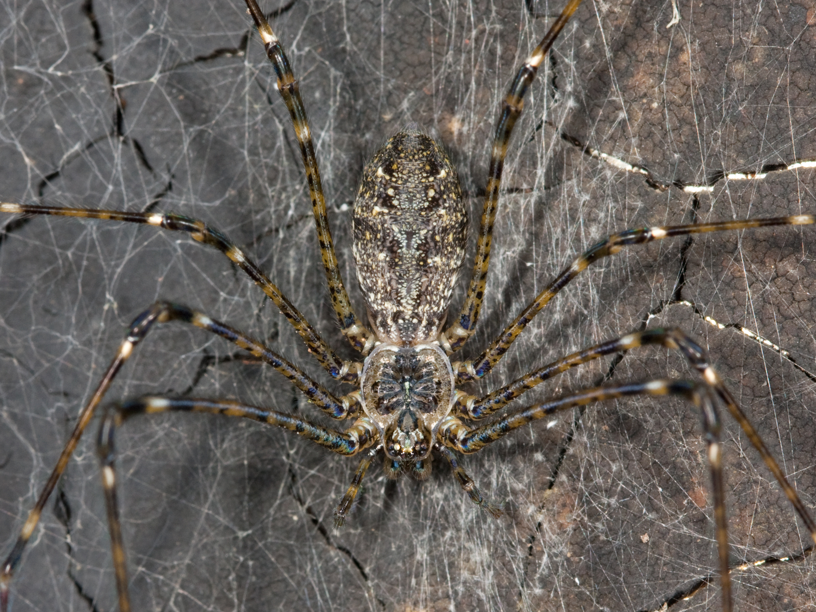 Lampshade spider (Hypochilus pococki) at Oconaluftee, Great Smoky Mountains National Park, Swain County, North Carolina, USA